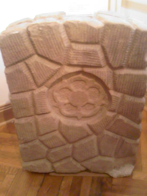 Boundary Marker of Lippe-Prussian border in what is today Germany. Seen in museum for military history in Augustdorf barracks. Marker shows the Rose of Lippe. (Flipside shows Prussian eagle.)